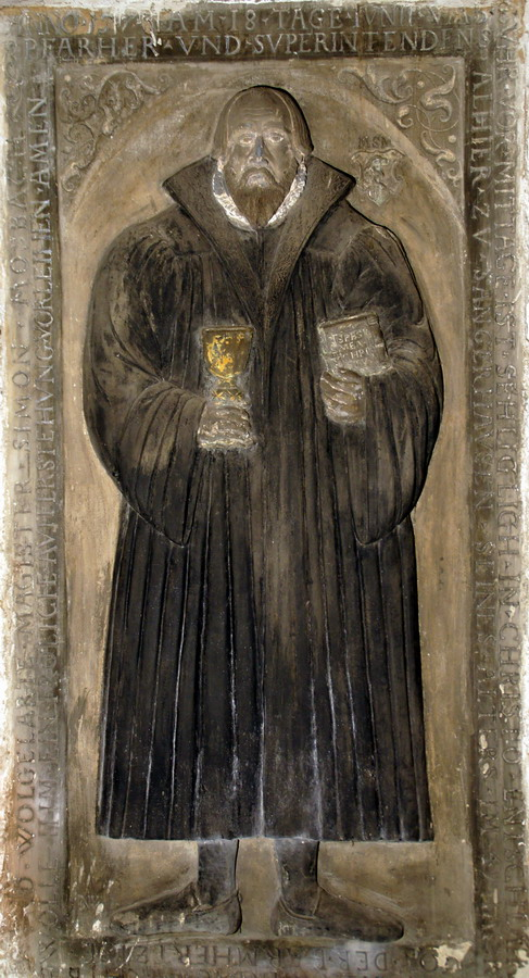 Simon Mosbach († 1573), Superintendent of Sangerhausen, Epitaph 1574 in the Church of St. Jacobi in Sangerhausen